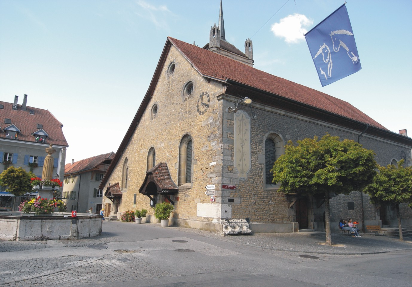 Avenches, church St. Marie-Madeleine (Canton Vaud/Waadt, Switzerland)